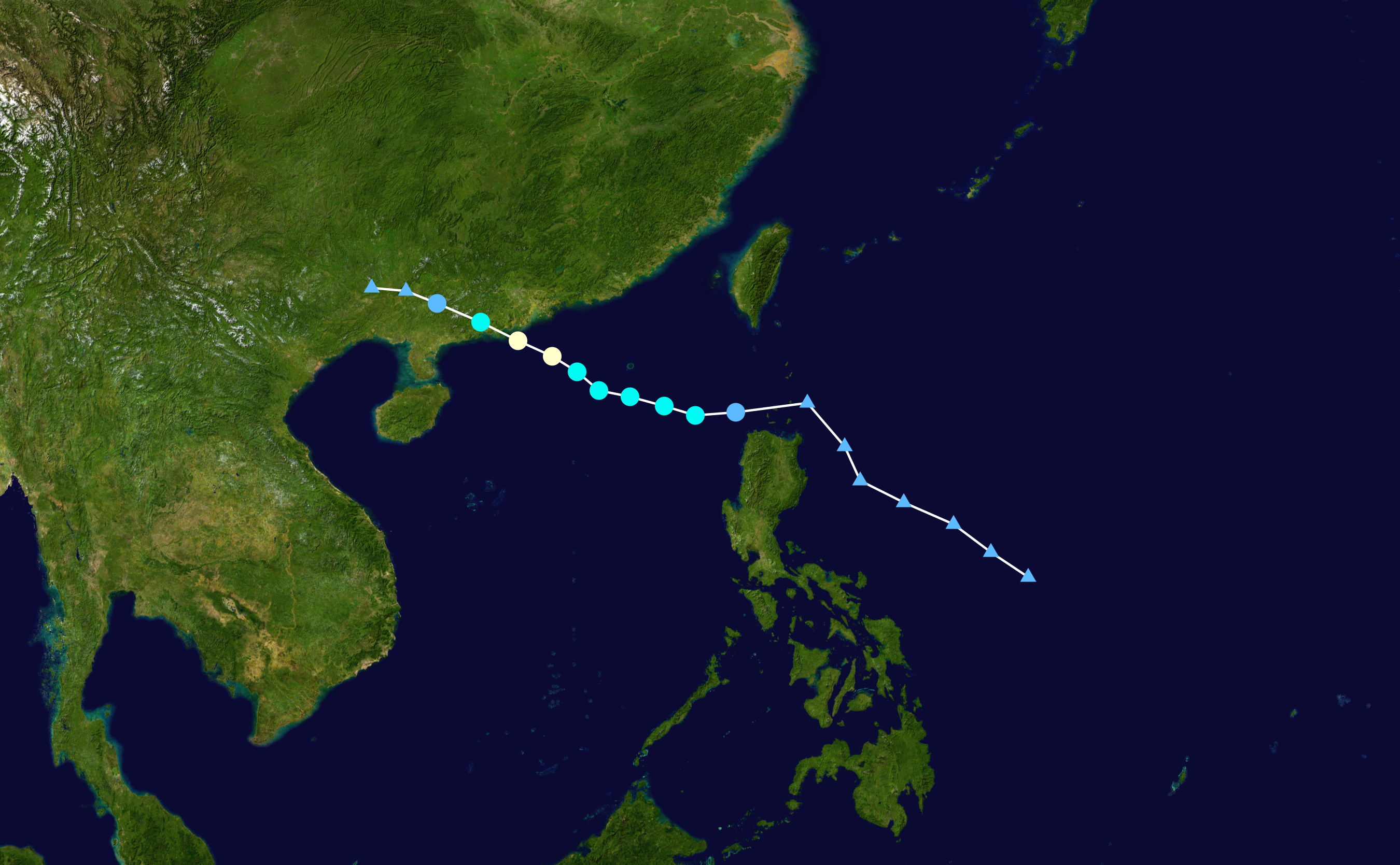 Track map of Typhoon Koppu of the 2009 Pacific typhoon season. The points show the location of the storm at 6-hour intervals. The colour represents the storm's maximum sustained wind speeds as classified in the Saffir–Simpson scale (see below), and the shape of the data points represent the nature of the storm, according to the legend below. Saffir–Simpson scale Tropical depression≤38 mph≤62 km/h Category 3111–129 mph178–208 km/h Tropical storm39–73 mph63–118 km/h Category 4130–156 mph209–251 km/h Category 174–95 mph119–153 km/h Category 5≥157 mph≥252 km/h Category 296–110 mph154–177 km/h Unknown Storm type Tropical cyclone Subtropical cyclone Extratropical cyclone / Remnant low / Tropical disturbance / Monsoon depression